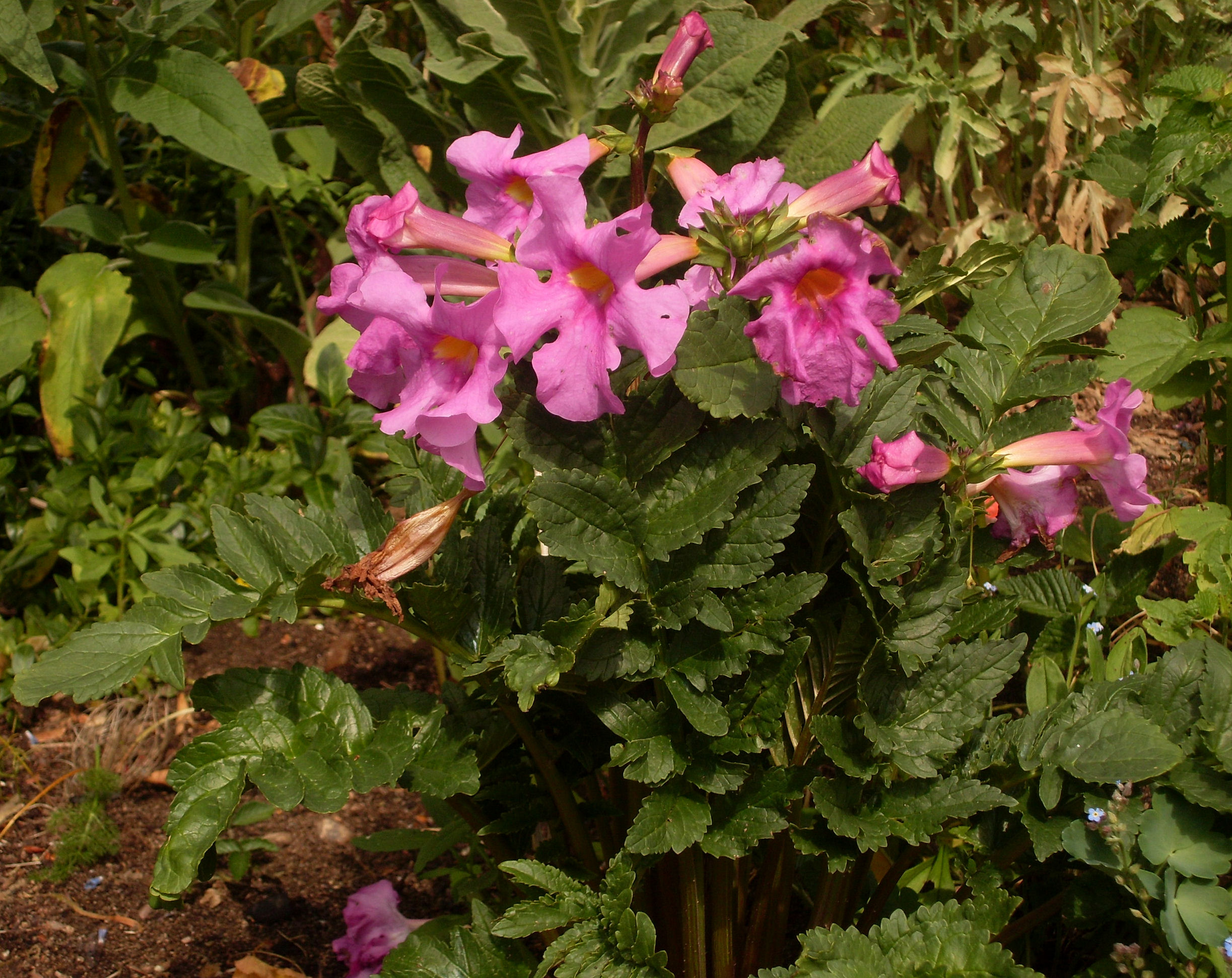 Incarvillea delavayi - picture taken i southern Sweden